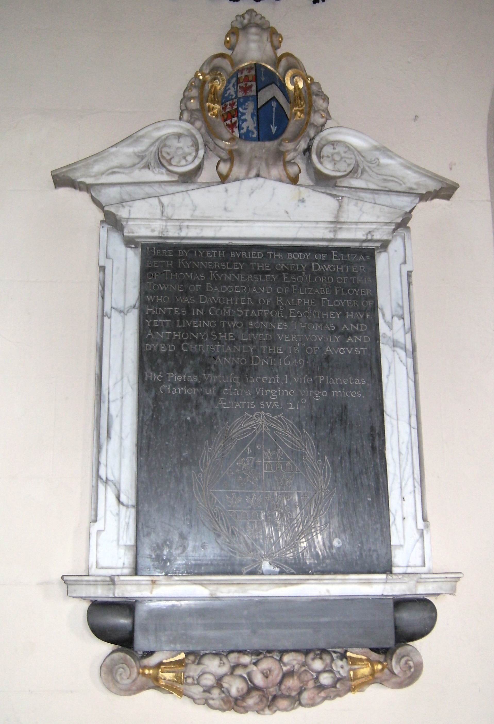 Memorial to Elizabeth Kynnersley, died 1649, St. Giles church, Badger, Shropshire.